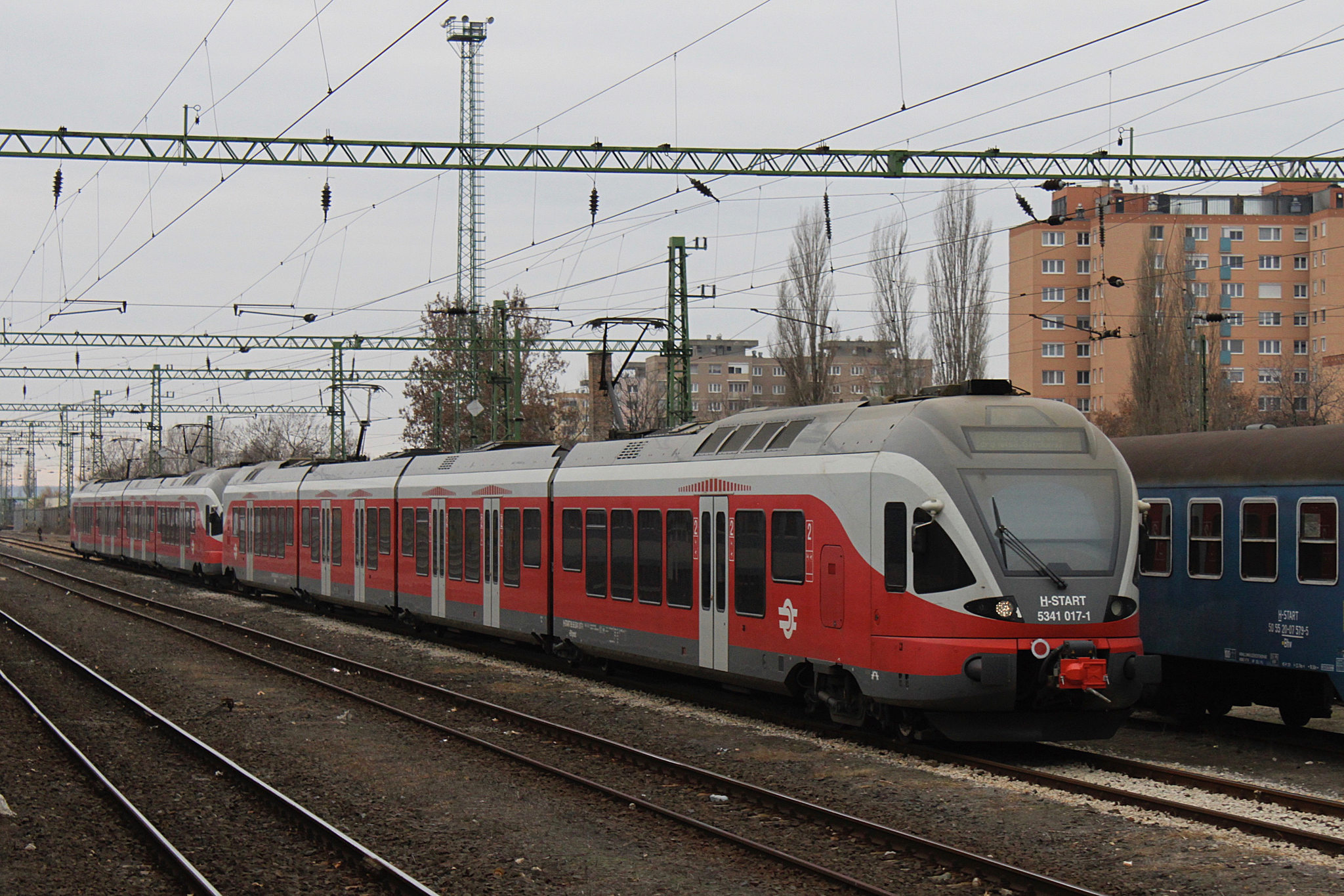 MÁV BVpmot 5341 017-1 at Székesfehérvár train station.